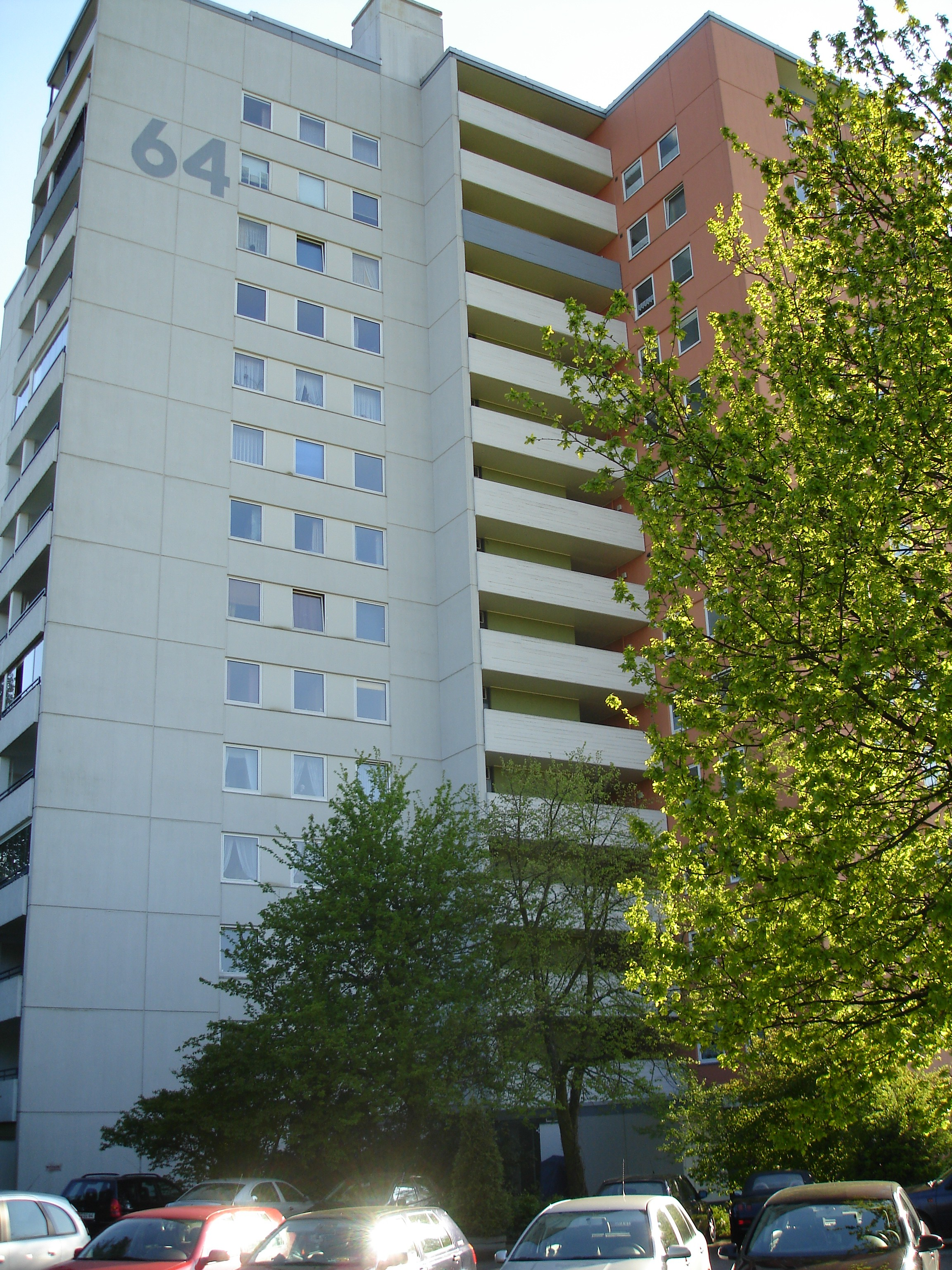 Town of Bünde, District of Herford, North Rhine-Westphalia, Germany: One of the Highrises in Spradow.